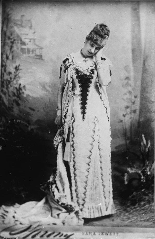 Format Headings Lantern slides. Photographs--Reproductions. Portrait photographs--Reproductions. Call Number/Physical Location LC-G4085- 0444 [P&P]